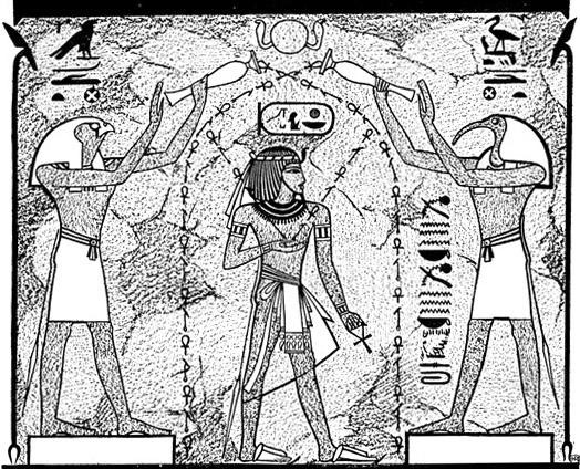 Anointing of an Ancient Egyptian king with oil